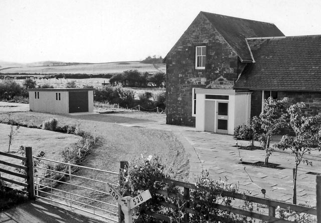 Bridge of Dee Station (converted). View NW of former station on the Castle Douglas (to right) - Kirkcudbright (to left) line, closed to passengers 3/5/65, completely 14/6/65. Note the preserved gradient-post in foreground.